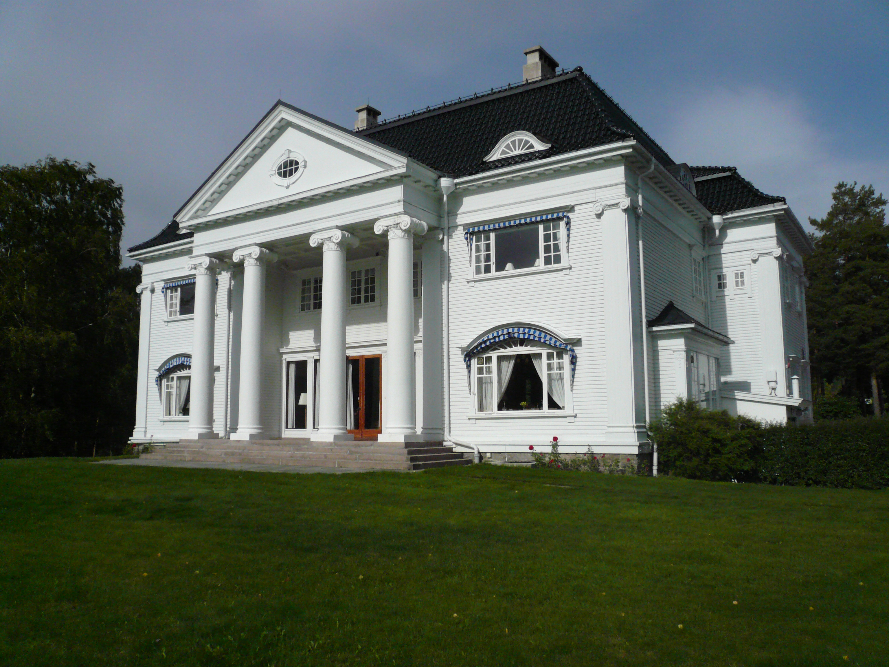 Admini, Notodden